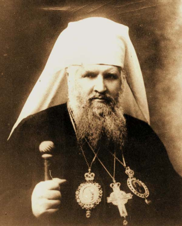 Metropolitan Andrey, Rome, 1921